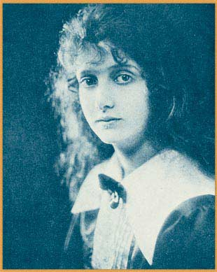 Publicity photo of Gloria Hope from Who's Who on the Screen. The "smoky city" claims Miss Hope, as its favorite screen idol, for she was born in Pittsburgh, Pa., in 1901. Following her education at a Newark, N. J., school, she entered upon her career as a screen player and played successively with Ince, Triangle, Artcraft, Ince Paramount, Paralta, Universal and Goldwyn. "Naughty, Naughty," "The Gay Lord Quex, "Burglar by Proxy, "The Hushed Hour," "The Great Love," and "Outcasts of Poker Flat" are a few of the many screen plays this charming player has appeared in. Miss Hope is five feet two inches high, weighs a hundred and six pounds and has a light complexion, auburn hair and blue eyes.